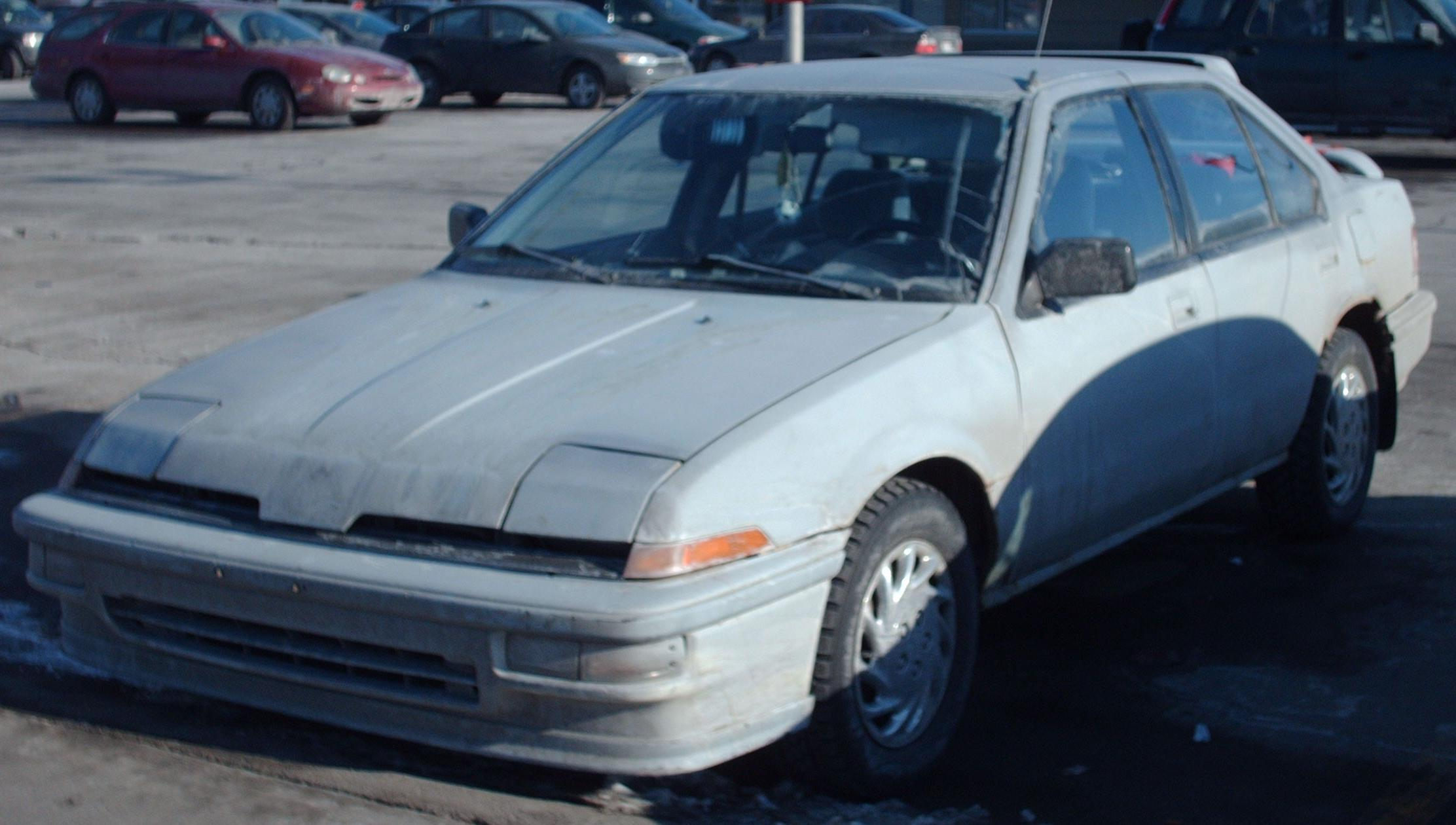 1986-1989 Acura Integra sedan photographed in Montreal, Quebec, Canada.